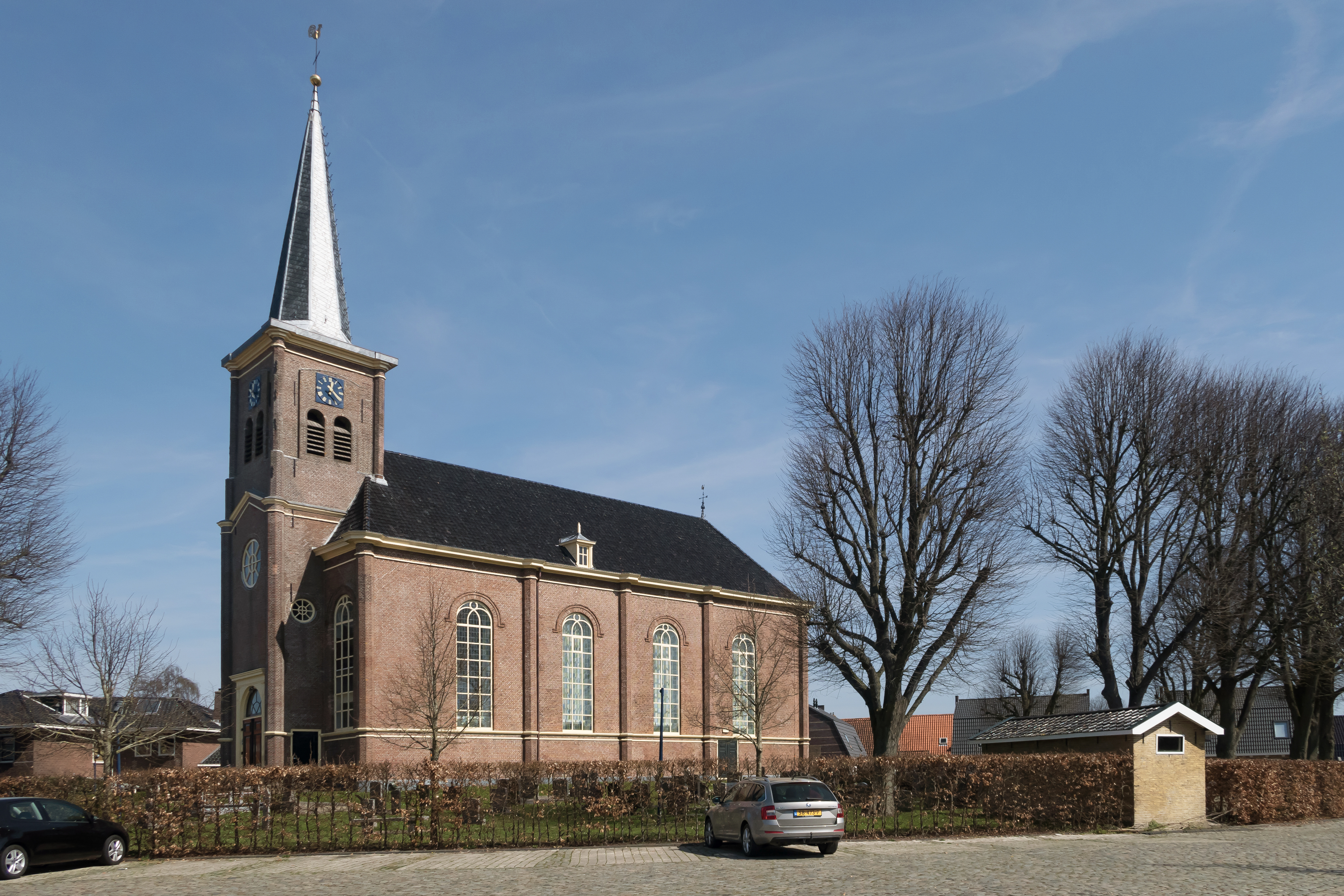 Koudum, church: de Martinikerk